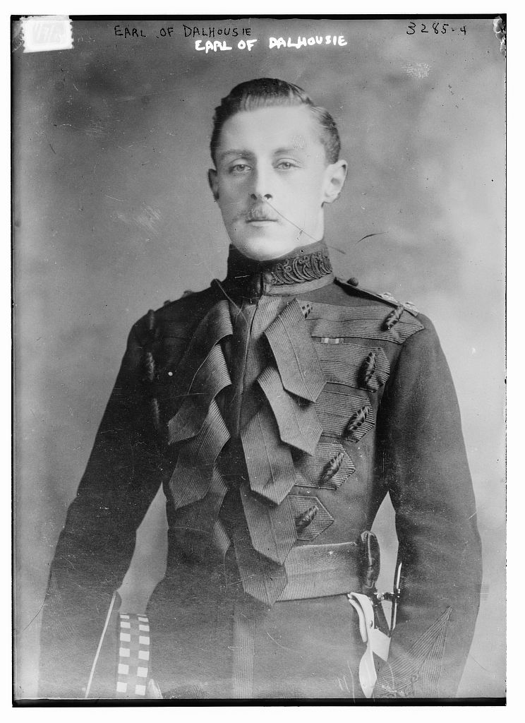 Arthur George Maule Ramsay circa 1914-1915. Earl of Dalhousie (LOC) Bain News Service,, publisher. Earl of Dalhousie [between ca. 1910 and ca. 1915] 1 negative : glass ; 5 x 7 in. or smaller. Notes: Title from unverified data provided by the Bain News Service on the negatives or caption cards. Forms part of: George Grantham Bain Collection (Library of Congress). Format: Glass negatives. Repository: Library of Congress, Prints and Photographs Division, Washington, D.C. 20540 USA, General information about the Bain Collection is available at Persistent URL: Call Number: LC-B2- 3285-4